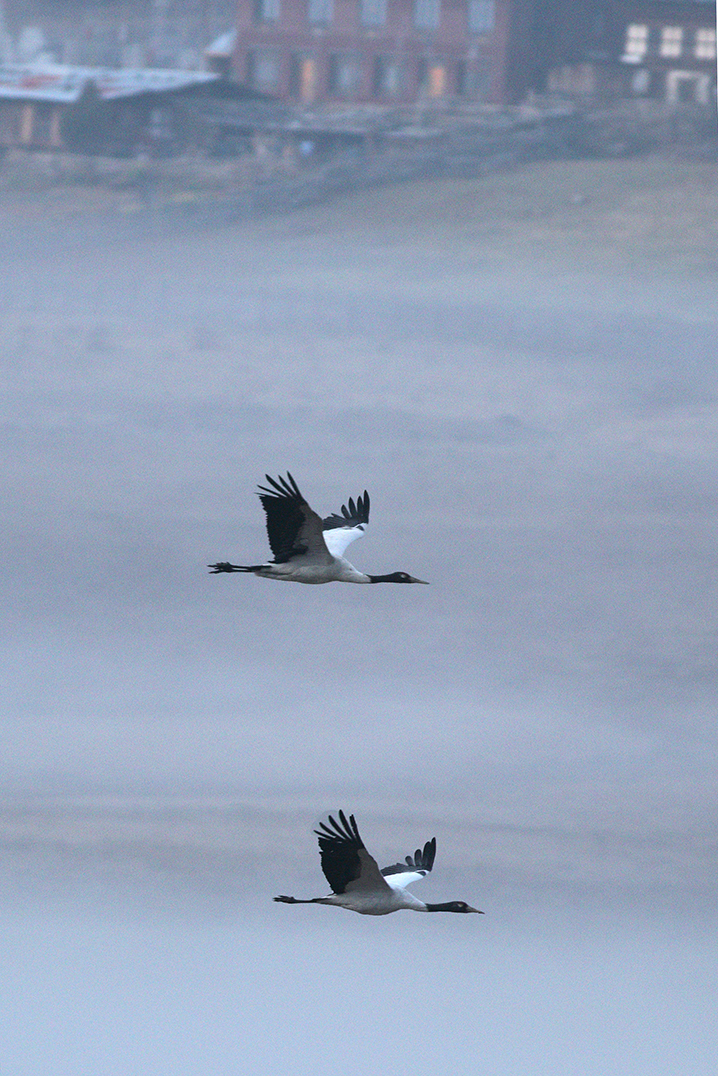 Black-necked Crane Phobjika Bhutan November 2018.